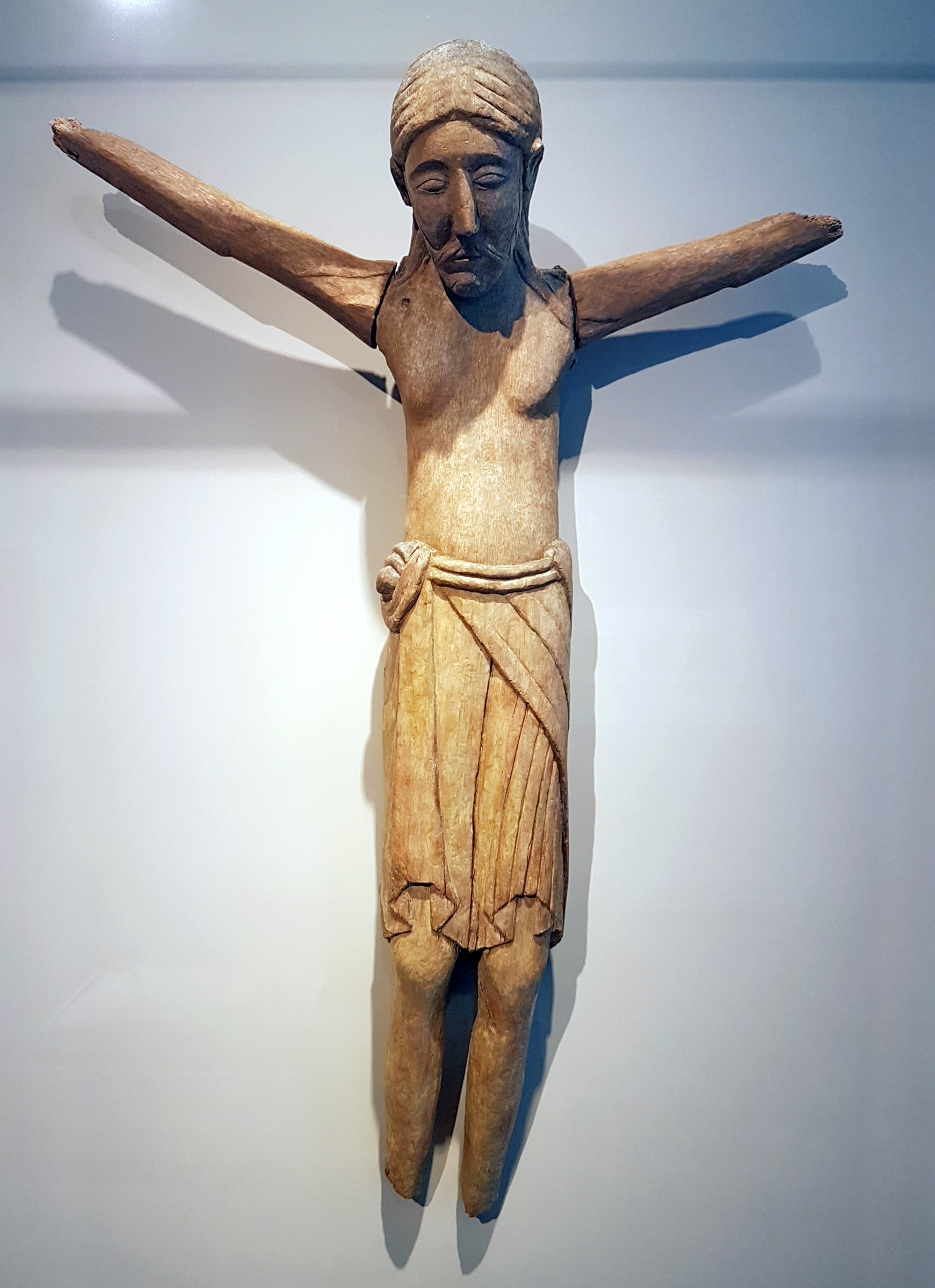 Wooden crucifix (Rhineland, 11th c.) in the collection of the Rheinisches Landesmuseum in Bonn, Germany. The crucifix was originally in the church of St. Peter's in Bonn-Dietkirchen.